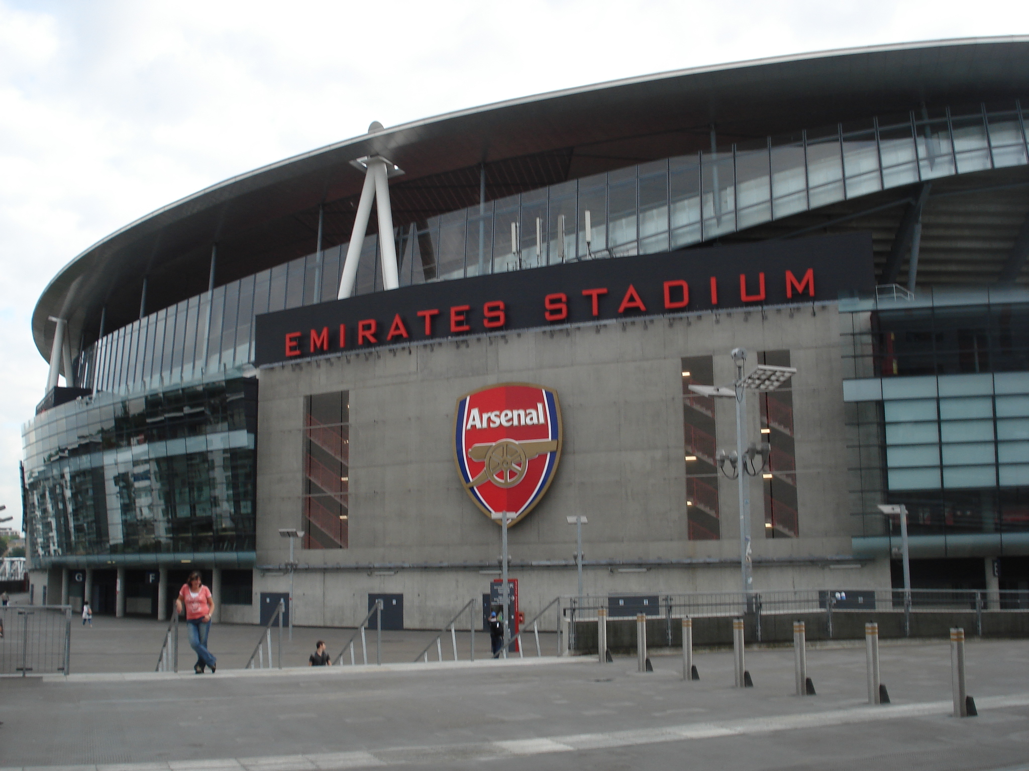 Emirates stadium, London, England